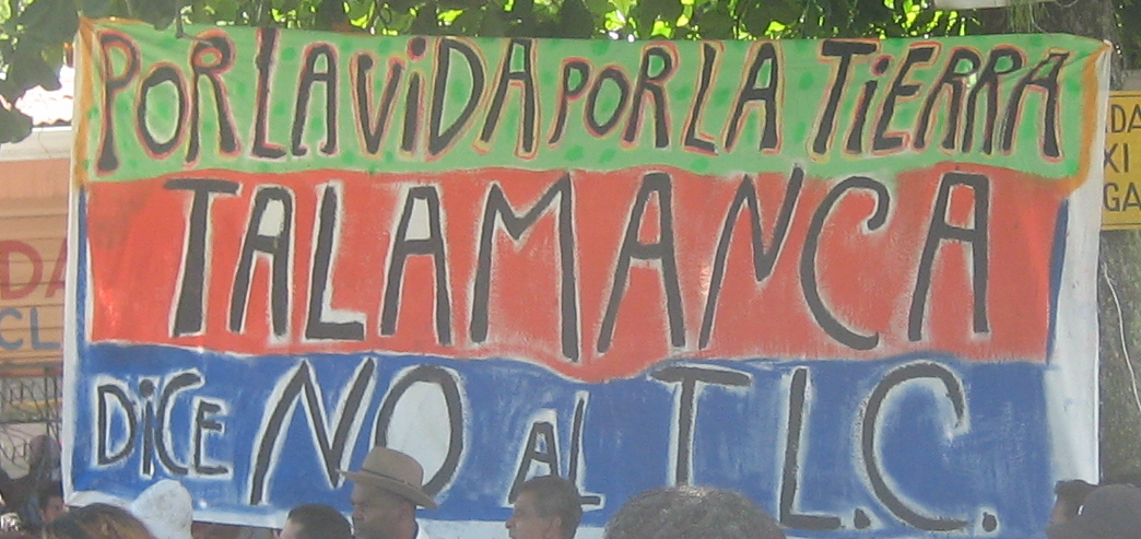 Protest rally against ratification of the Tratado de Libre Comercio (TLC, or Central American Free Trade Act, or CAFTA-DR) with the United States. Held in Bribrí, Talamanca. Translation: For our lives and for our land, Talamanca says "no" to TLC